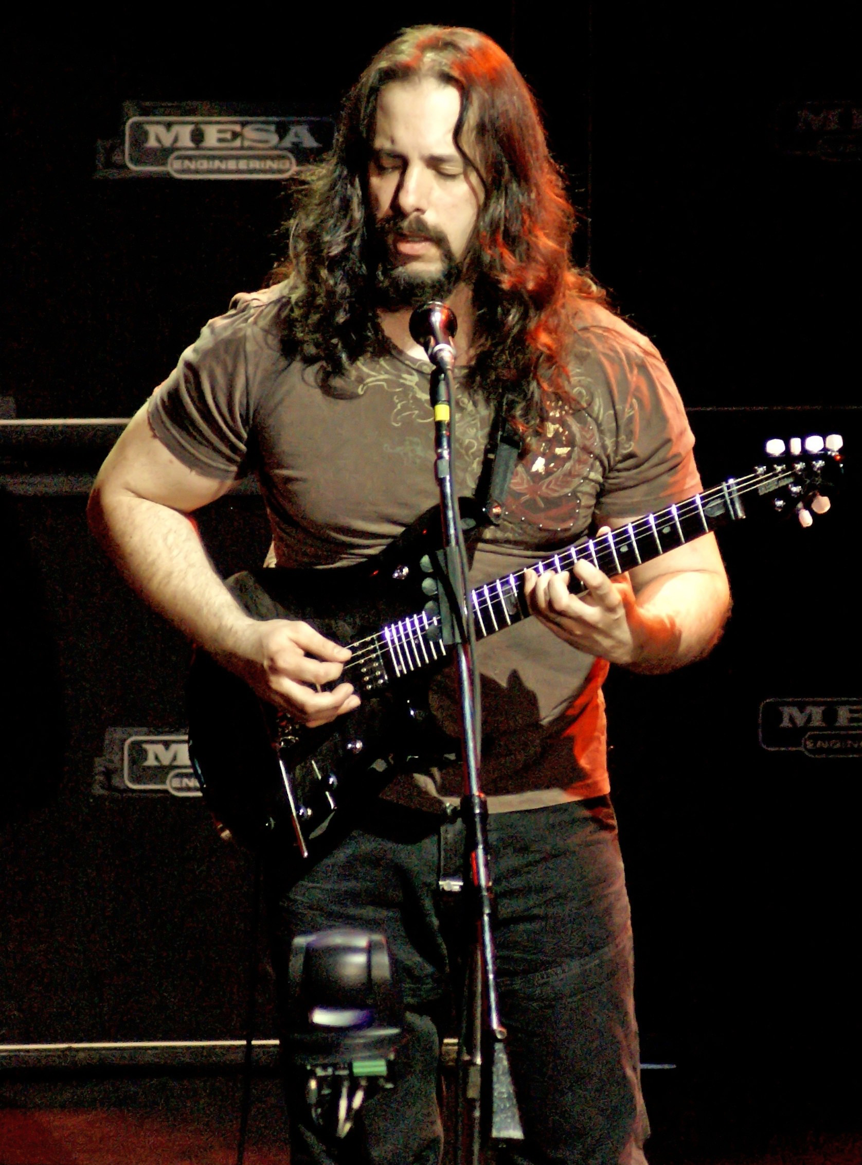 John Petrucci - american guitarist playing for Dream Theater i Rio